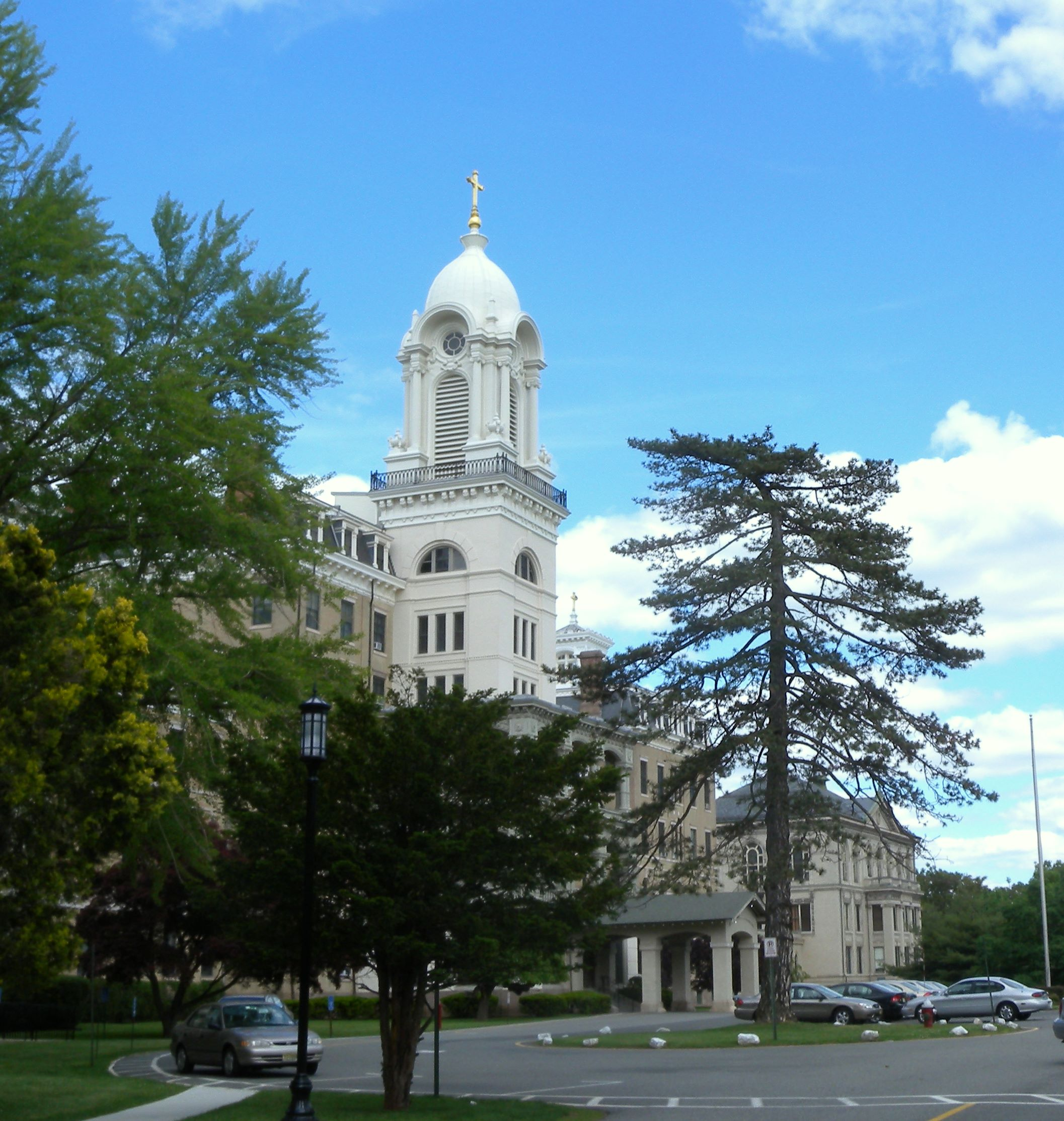 Looking east at administration building on a partly cloudy afternoon.